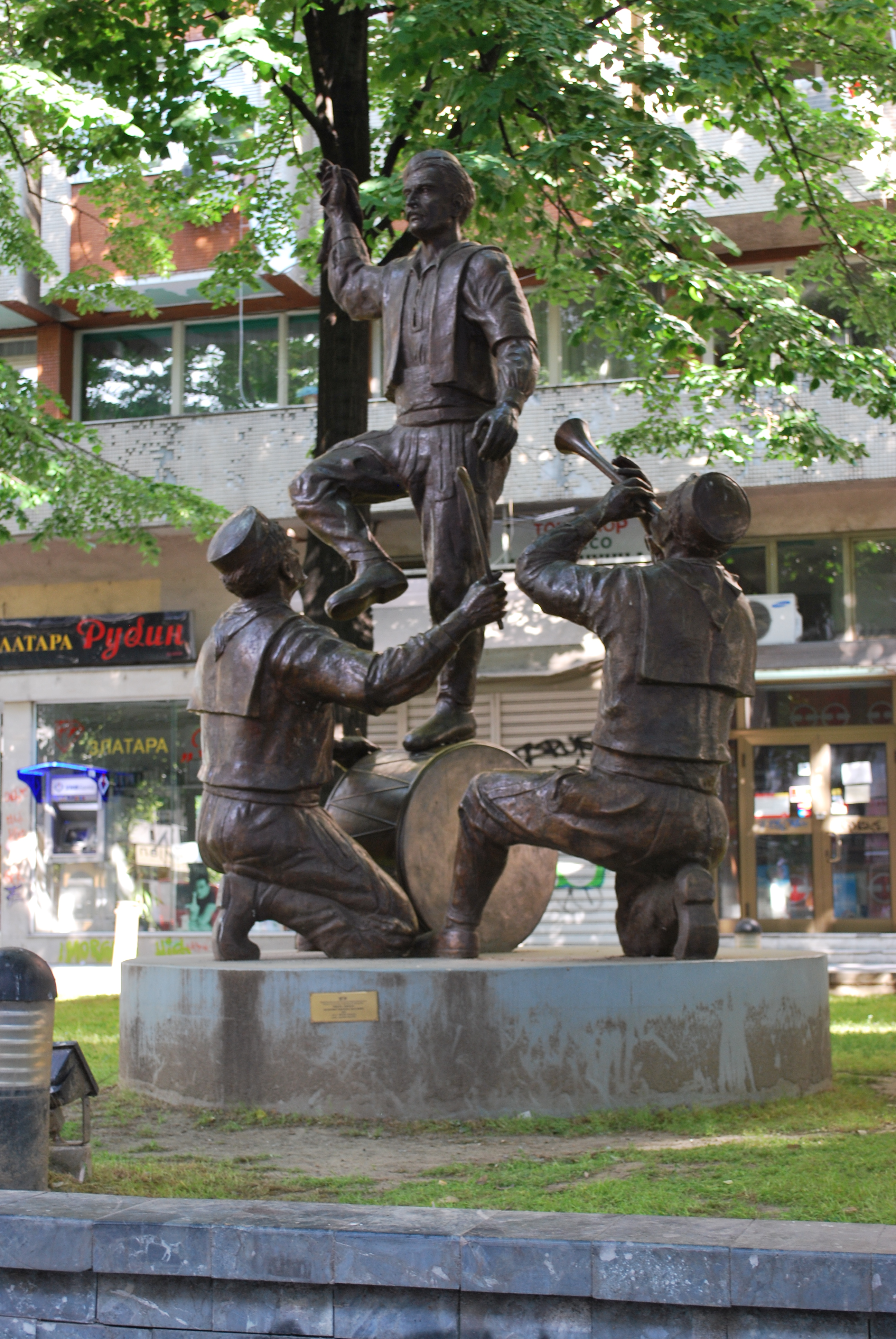 Monument of Teškoto in Macedonia Street in Skopje, the capital of Macedonia